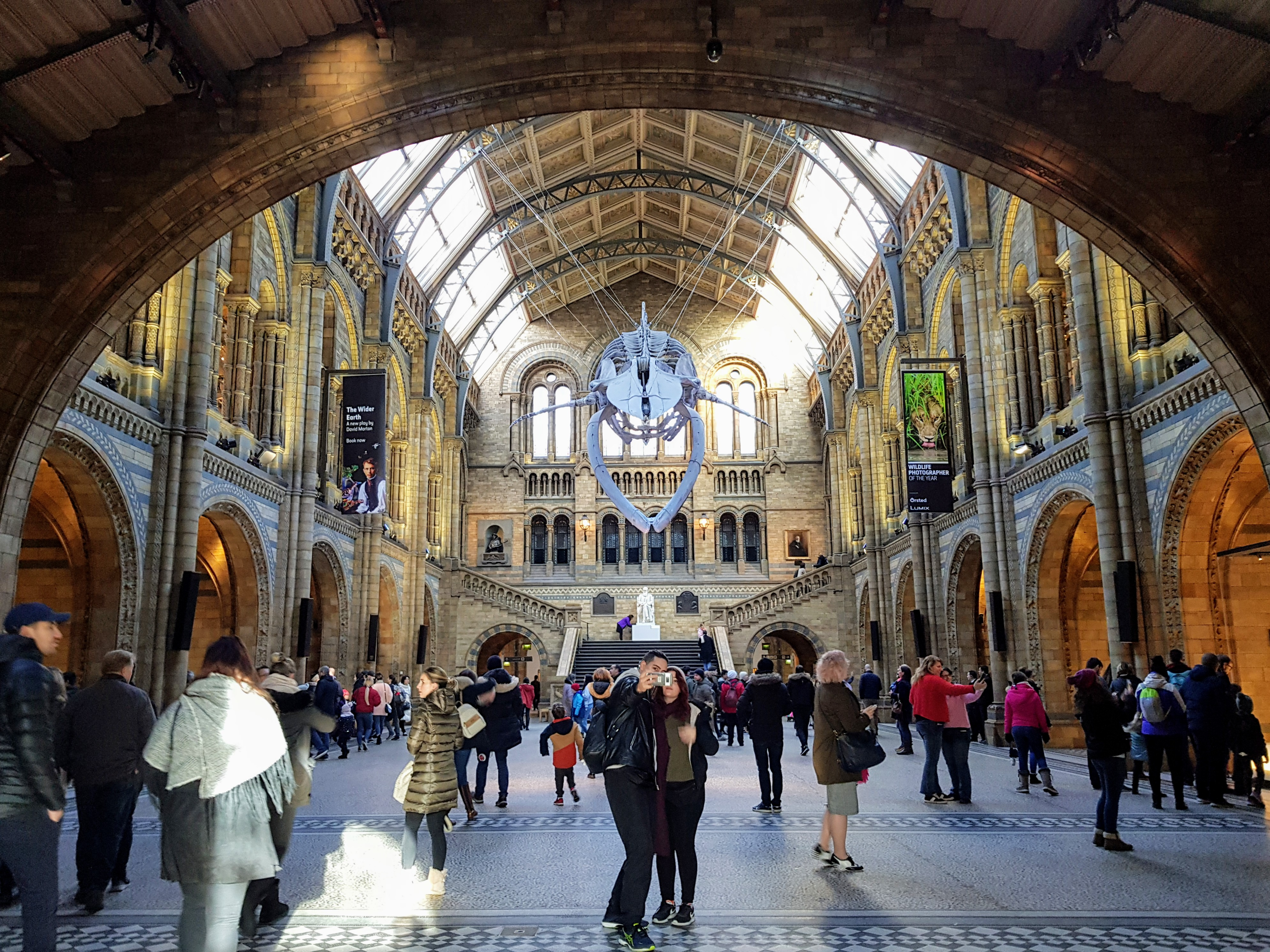 Central Hall, Natural History Museum, London